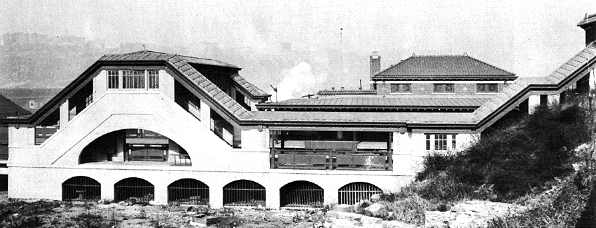 A picture of the Ninth Avenue Sedgwick Avenue station in The Bronx, New York City, taken circa 1918 when the station was still in service. The station closed in 1958 and some of its infrastructure still remaining.